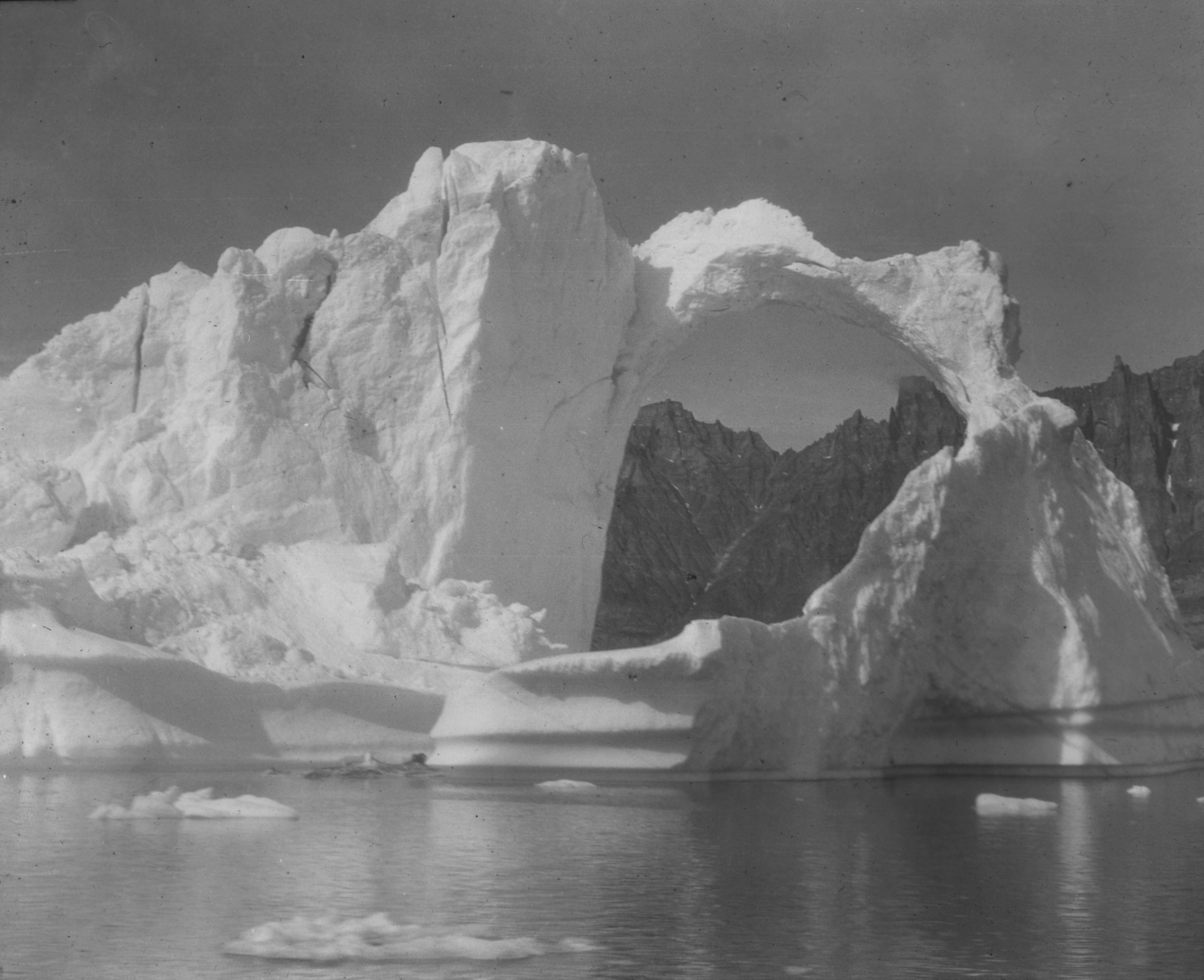 Photographs of the German expedition and overwintering in Greenland in 1930/31